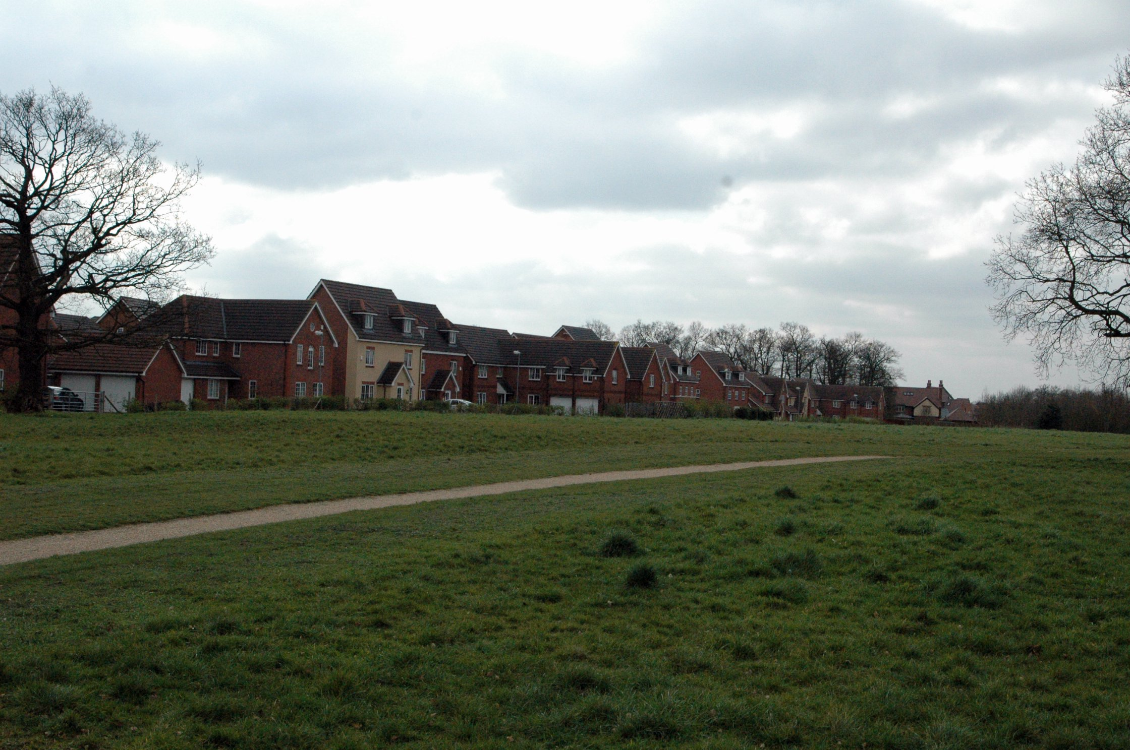 Created by Erebus555. This is the western boundary of the New Hall Manor Estate where it meets New Hall Valley.